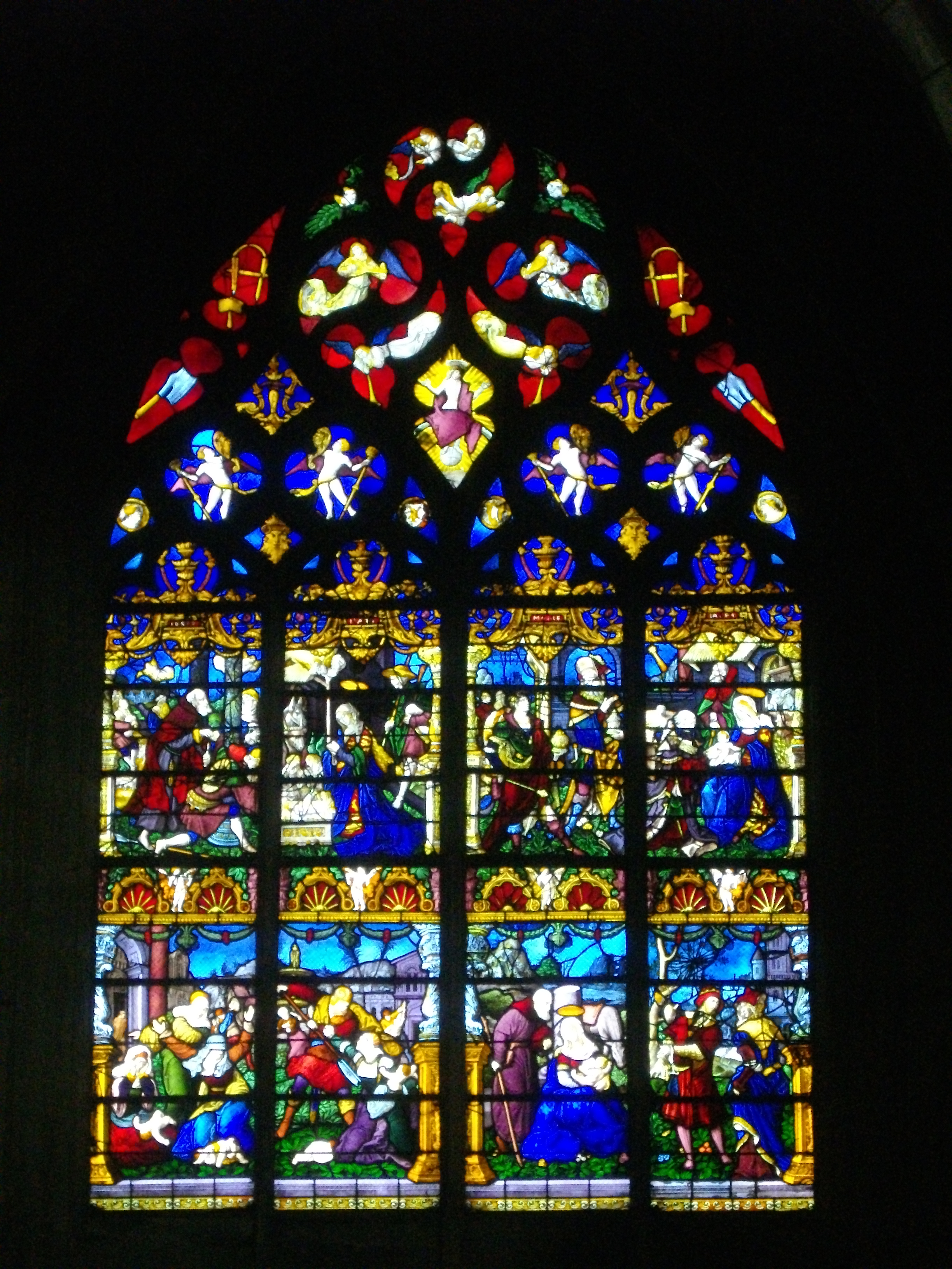 Stained glass window of Notre-Dame-en-Vaux collegiate church in Châlons-en-Champagne (Marne, France) : Adoration by the magi, Massacre of the Innocents, Flight into egypt .